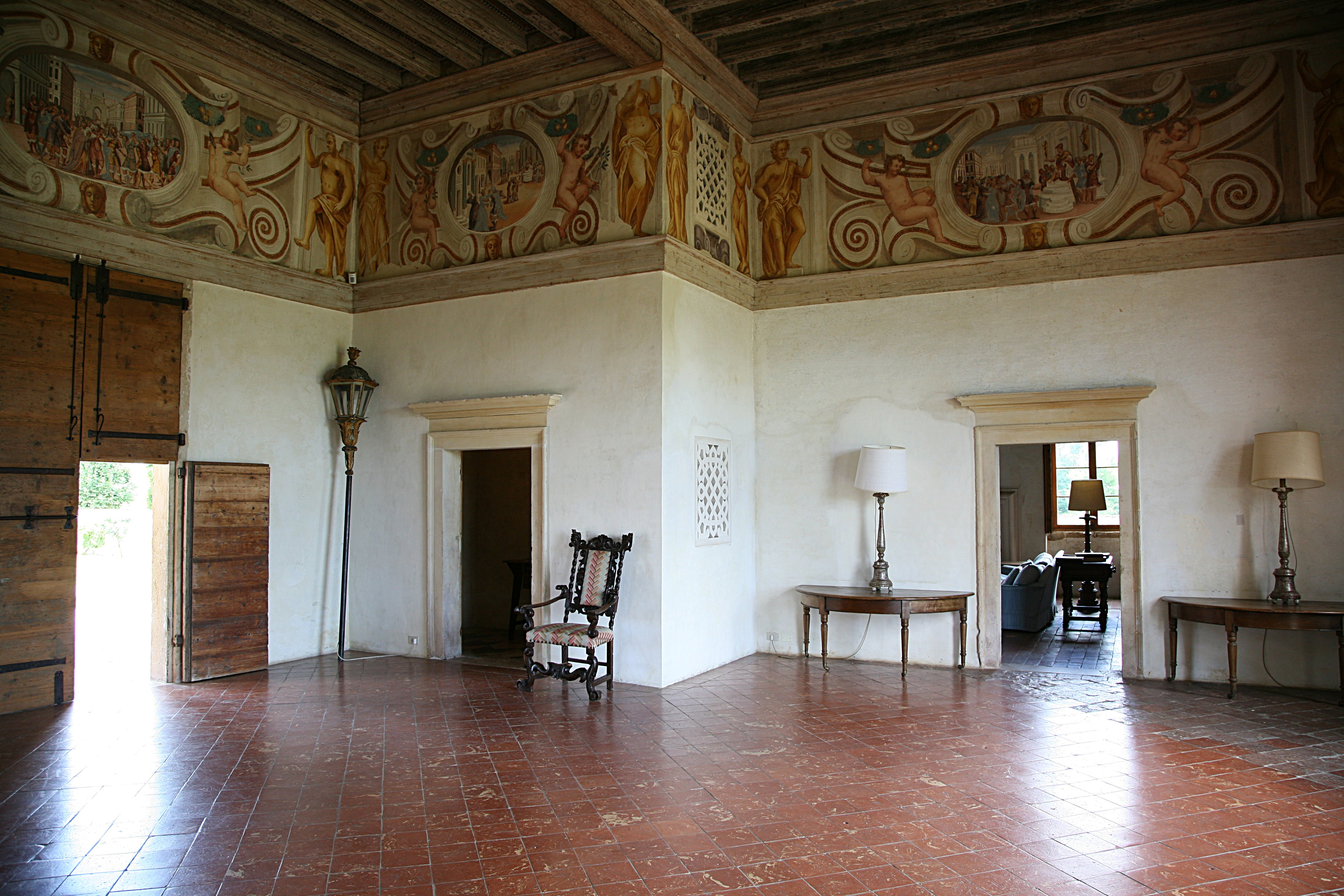 A Villa at Finale of Agugliaro in Italy. Designed by Andrea Palladio